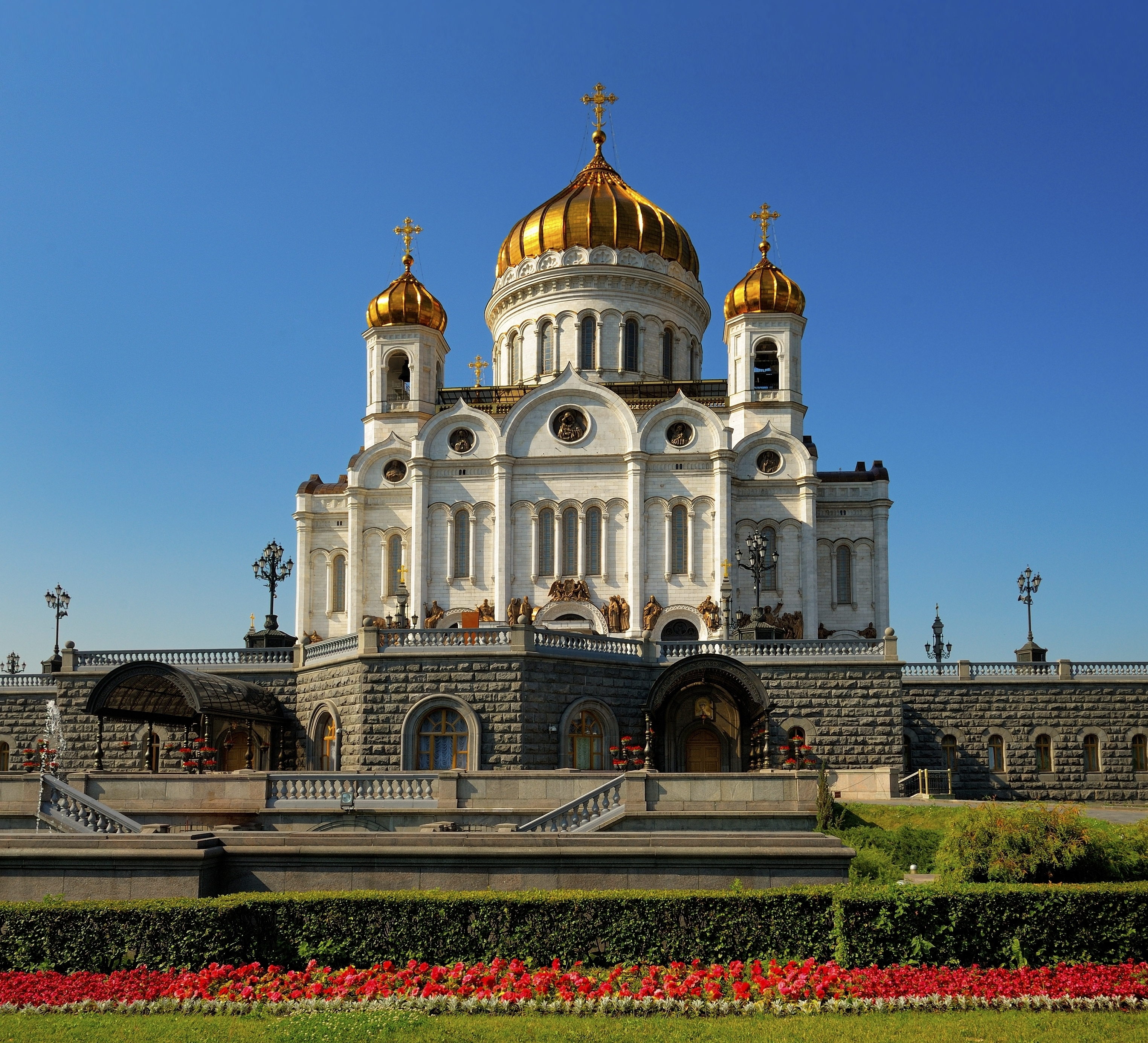 Cathedral of Christ the Saviour